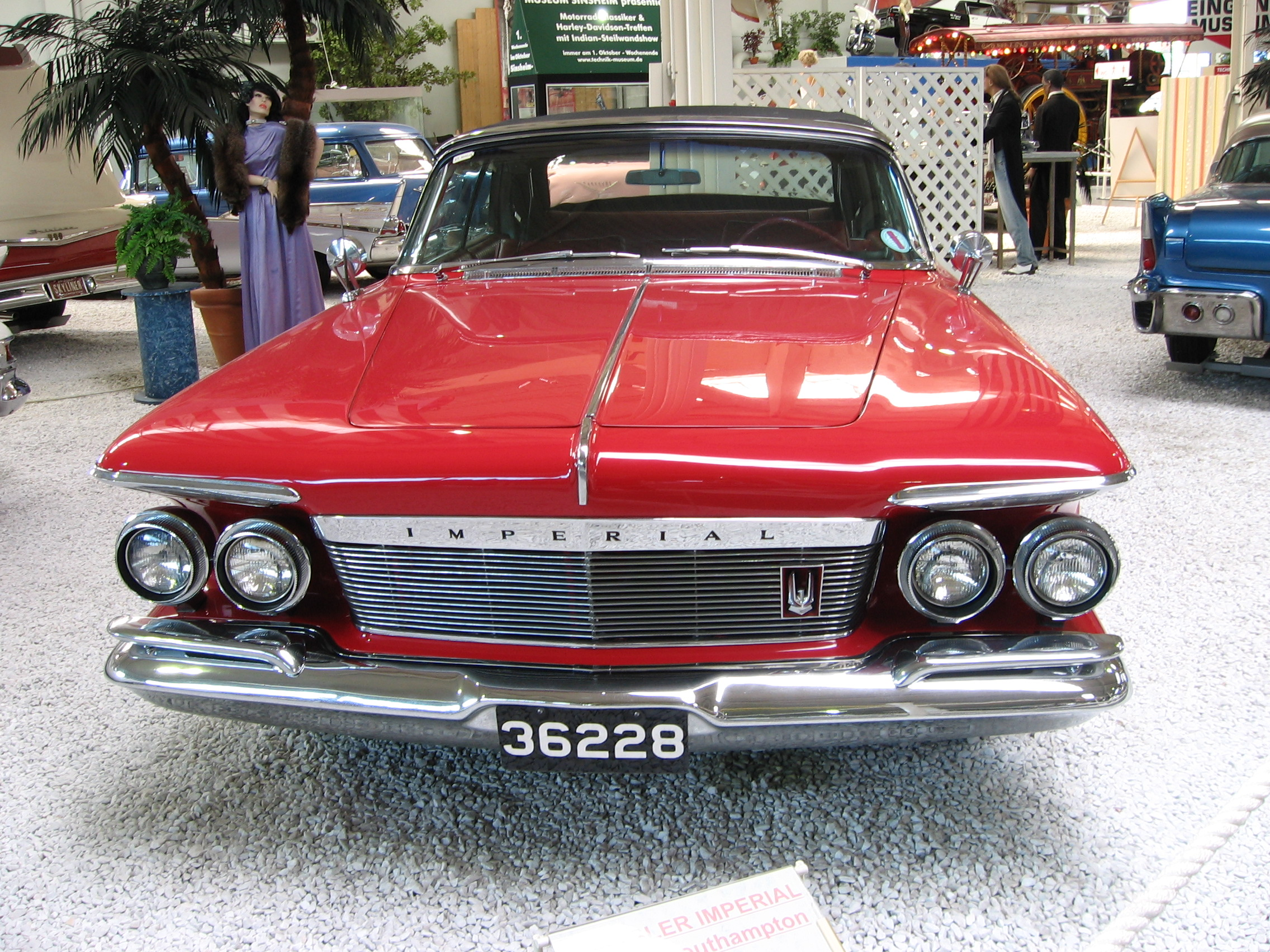 1961 Imperial Crown convertible at the Auto- und Technikmuseum Sinsheim / Germany. Picture taken in may 2006 by Christian Kath (me).